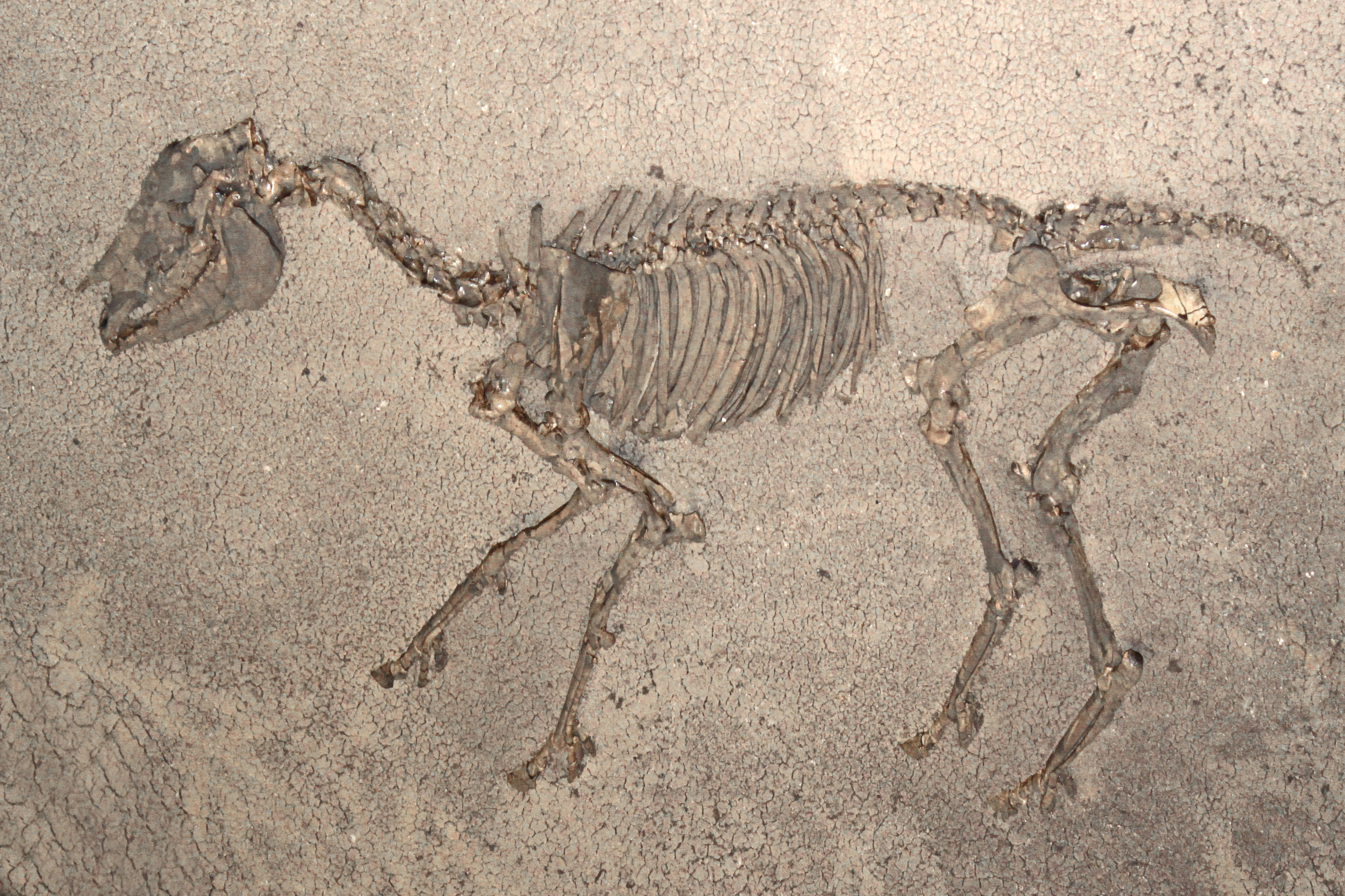 Hipparion primigenius, Equidae; Upper Miocene, Höwenegg near Immendingen, South Germany; Staatliches Museum für Naturkunde Karlsruhe, Germany.